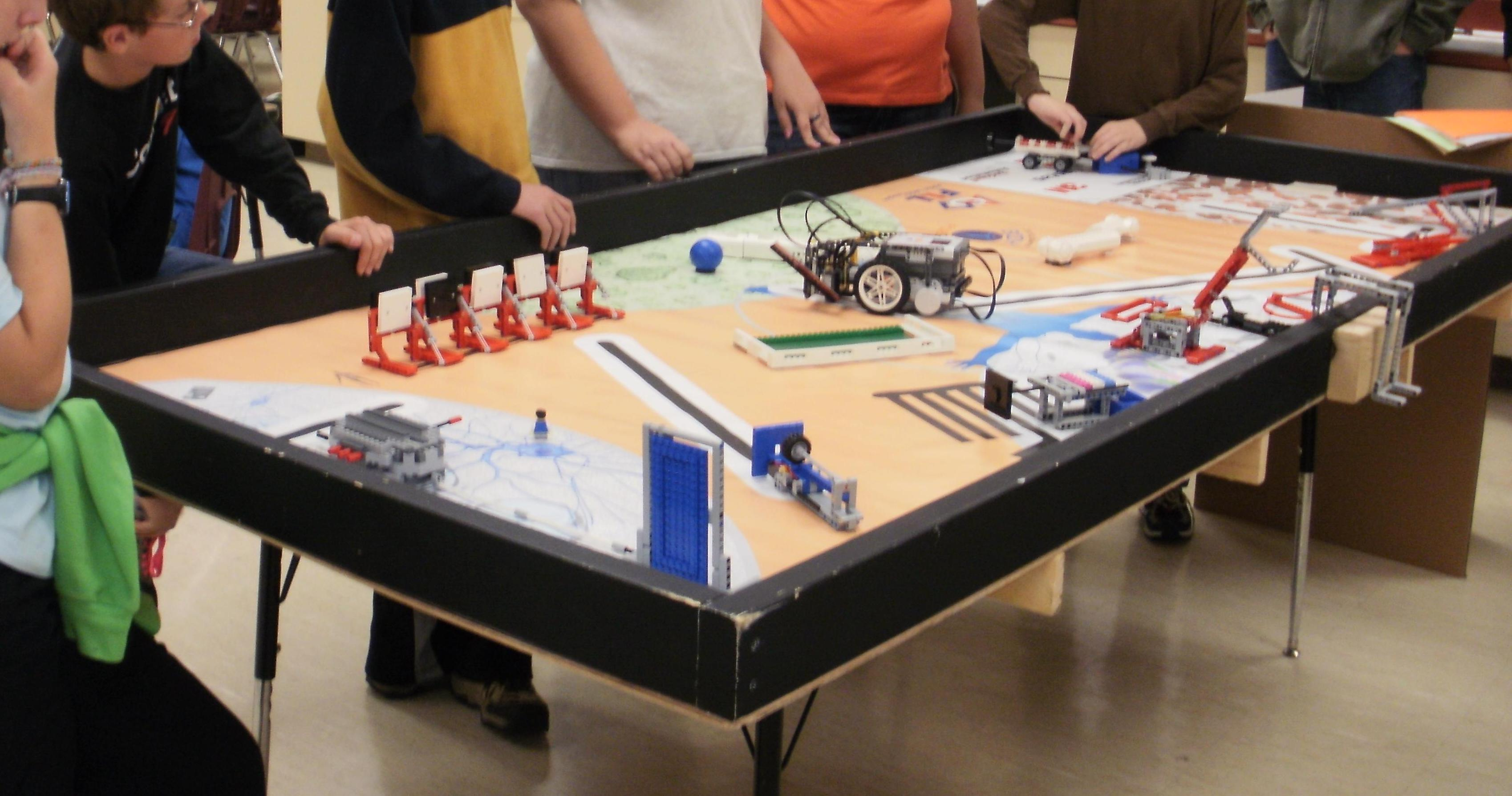 The field of Body Forward (FLL competition) with a robot in center.